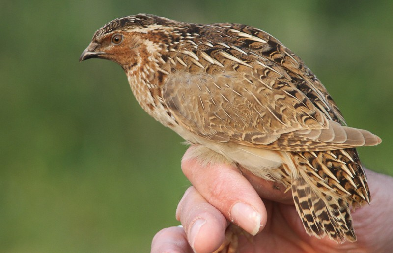 Coturnix coturnix (Phasianidae) (Common Quail) - (second calendar year), Meijendel - Vallei Meijendel, the Netherlands